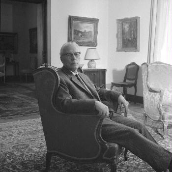 Photograph of the Finnish business executive Lauri Kivekäs (1903–1998). Photographed at Pyynikinrinne VII, Pyynikinlinna, Mariankatu 40, Tampere, Finland.